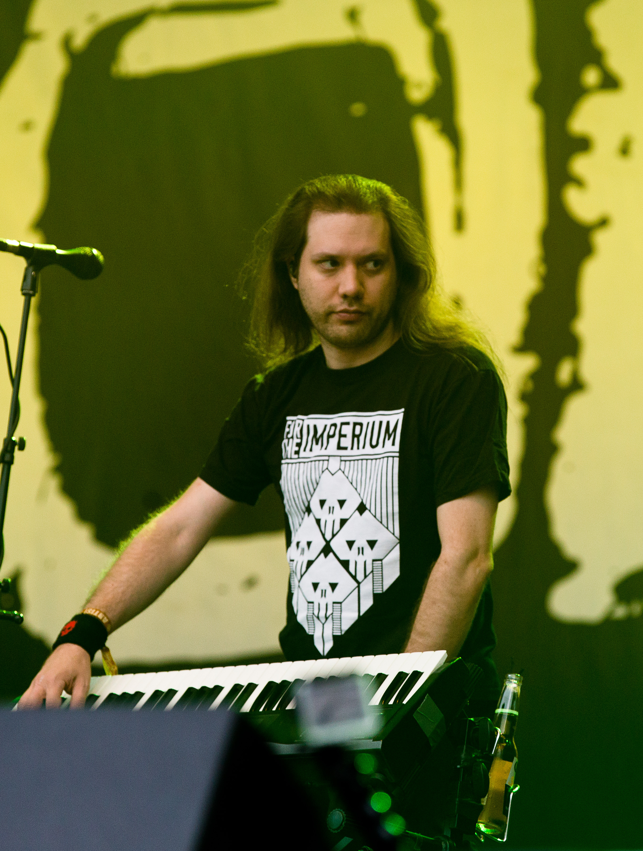 The Finnish melodic death metal band Children of Bodom at the Rockharz Open Air 2016 in Ballenstedt/Germany.